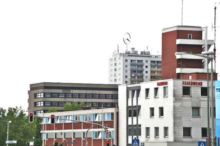 Entwicklungsbereich nördliche Innenstadt